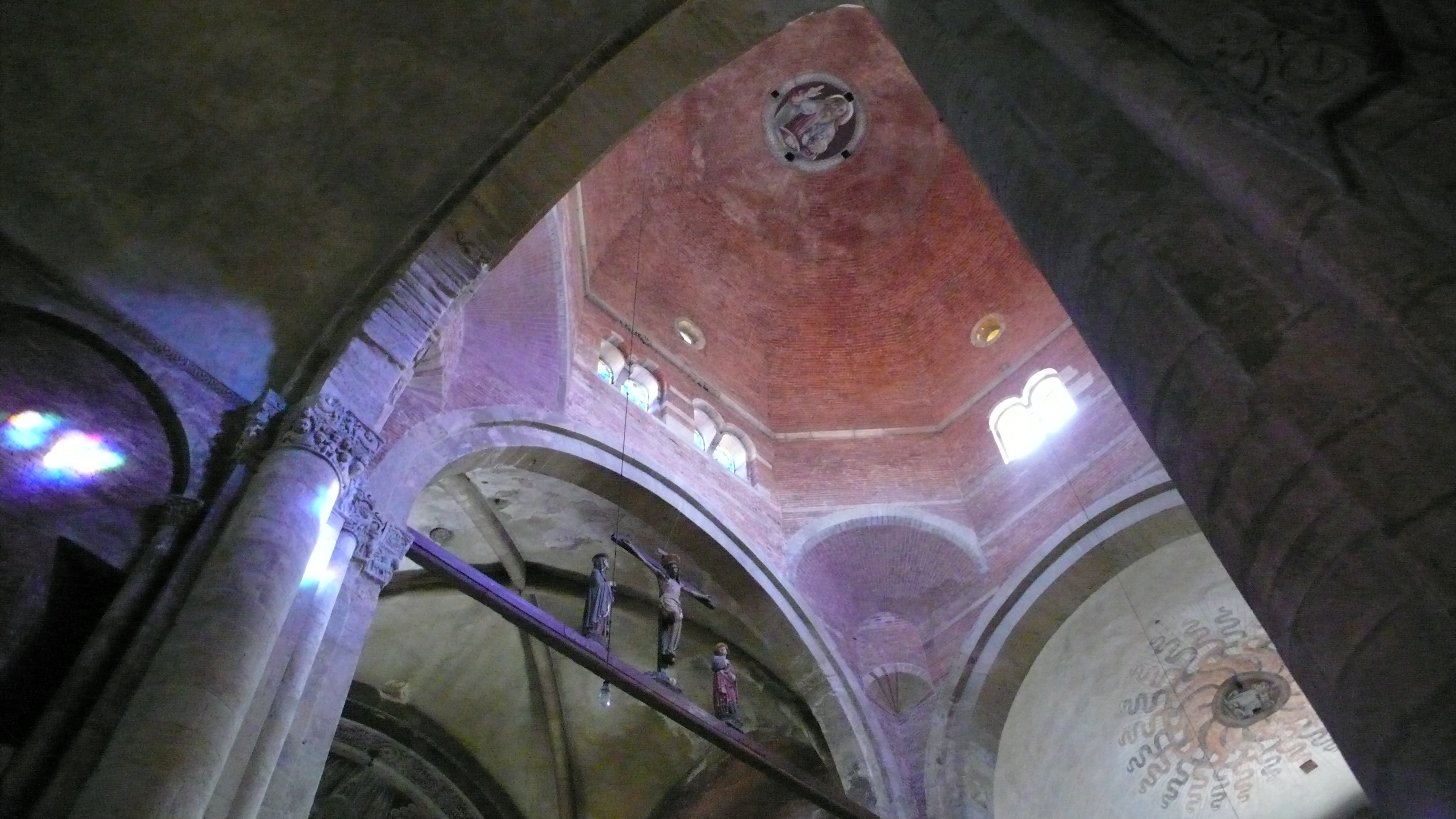 Interior of the church San Michele in Pavia, Italy.